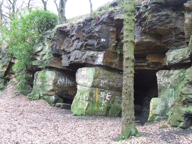 Crank Caverns The well hidden Crank Caverns entrance.